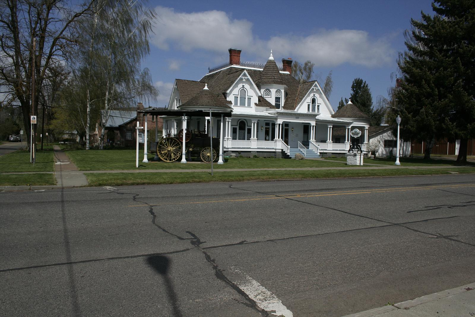 Museum in Goldendale, Washington, USA